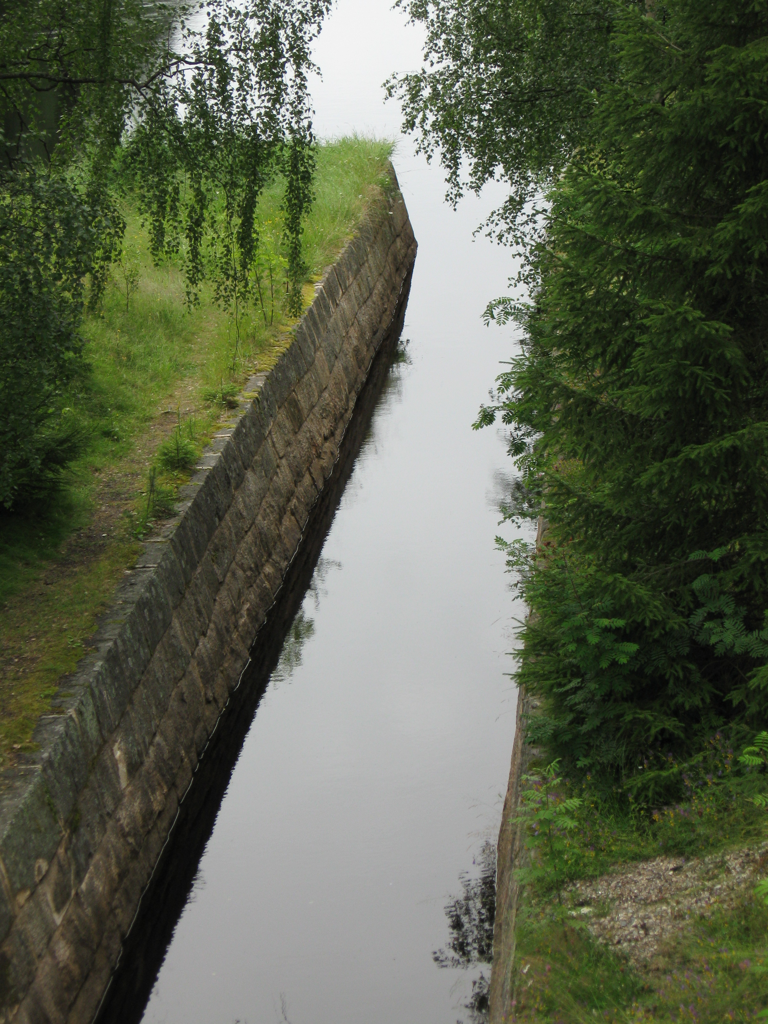 The ending of the renowed canal through which tar boats were taken at Ämmäkoski rapids of the Kajaani river in Kajaani, Finland.